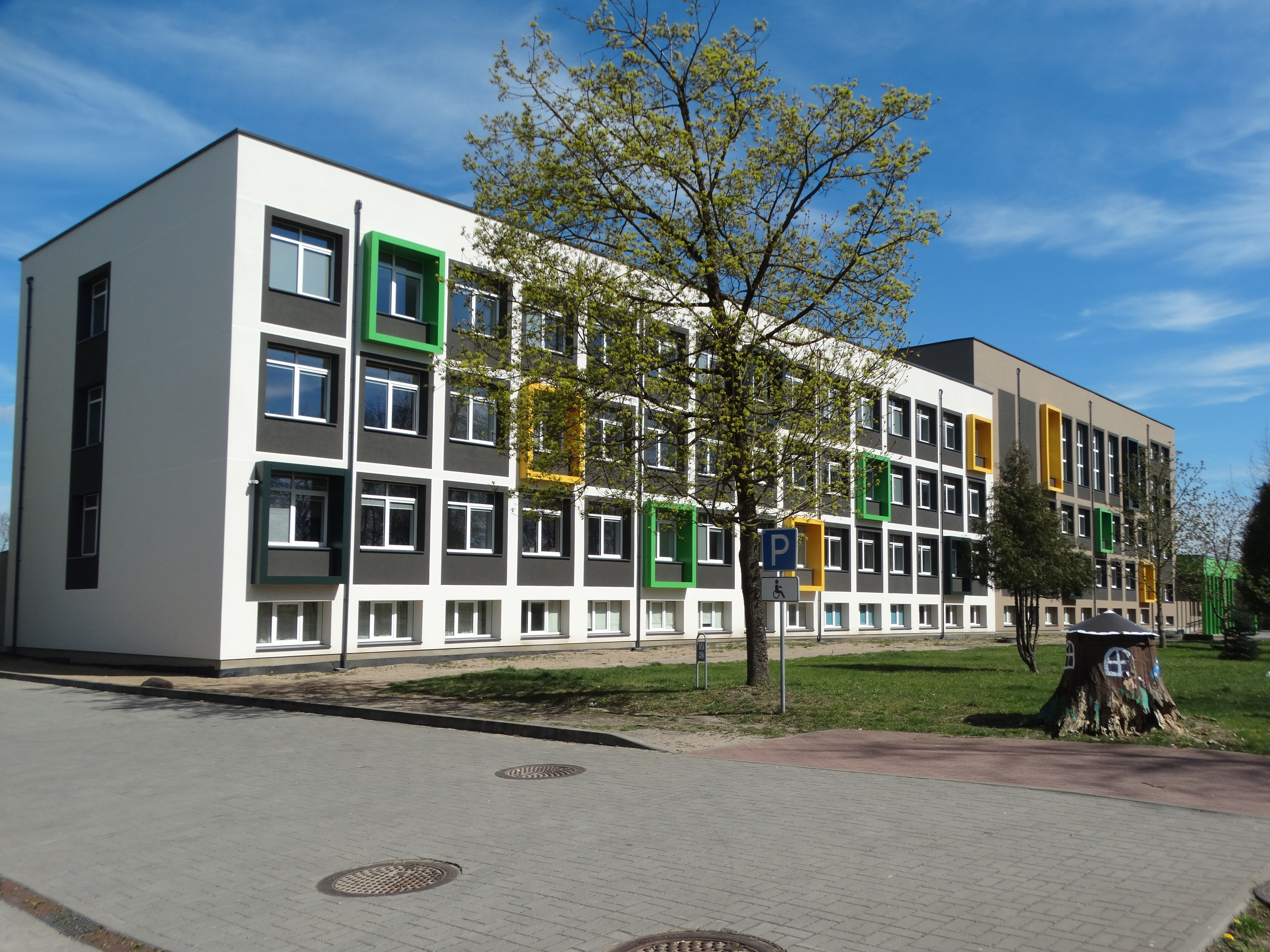 Mažvydas Progymnasium, Tauragė, Lithuania